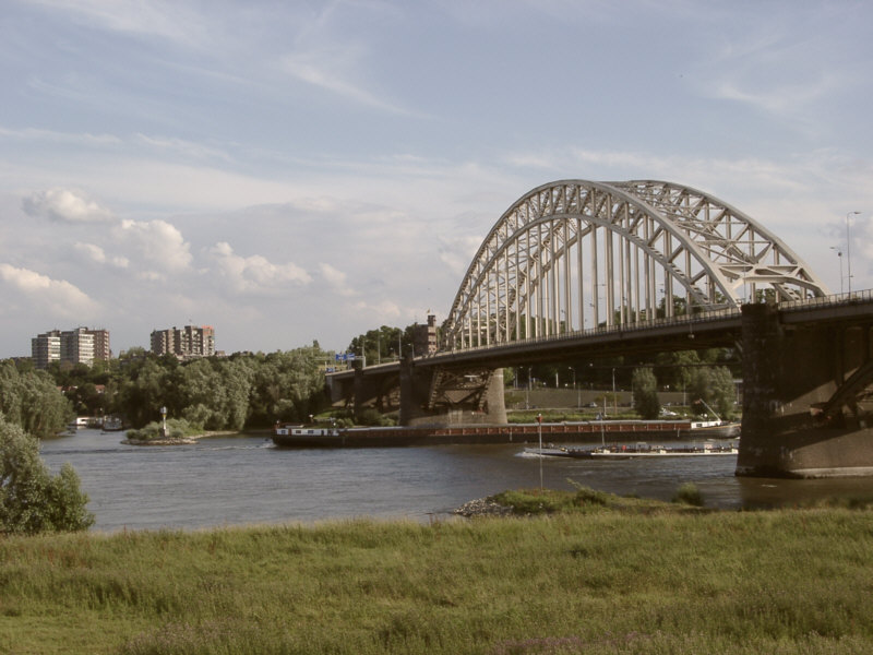 Waalbrug (Bridge over the Waal) at Nijmegen, Netherlands